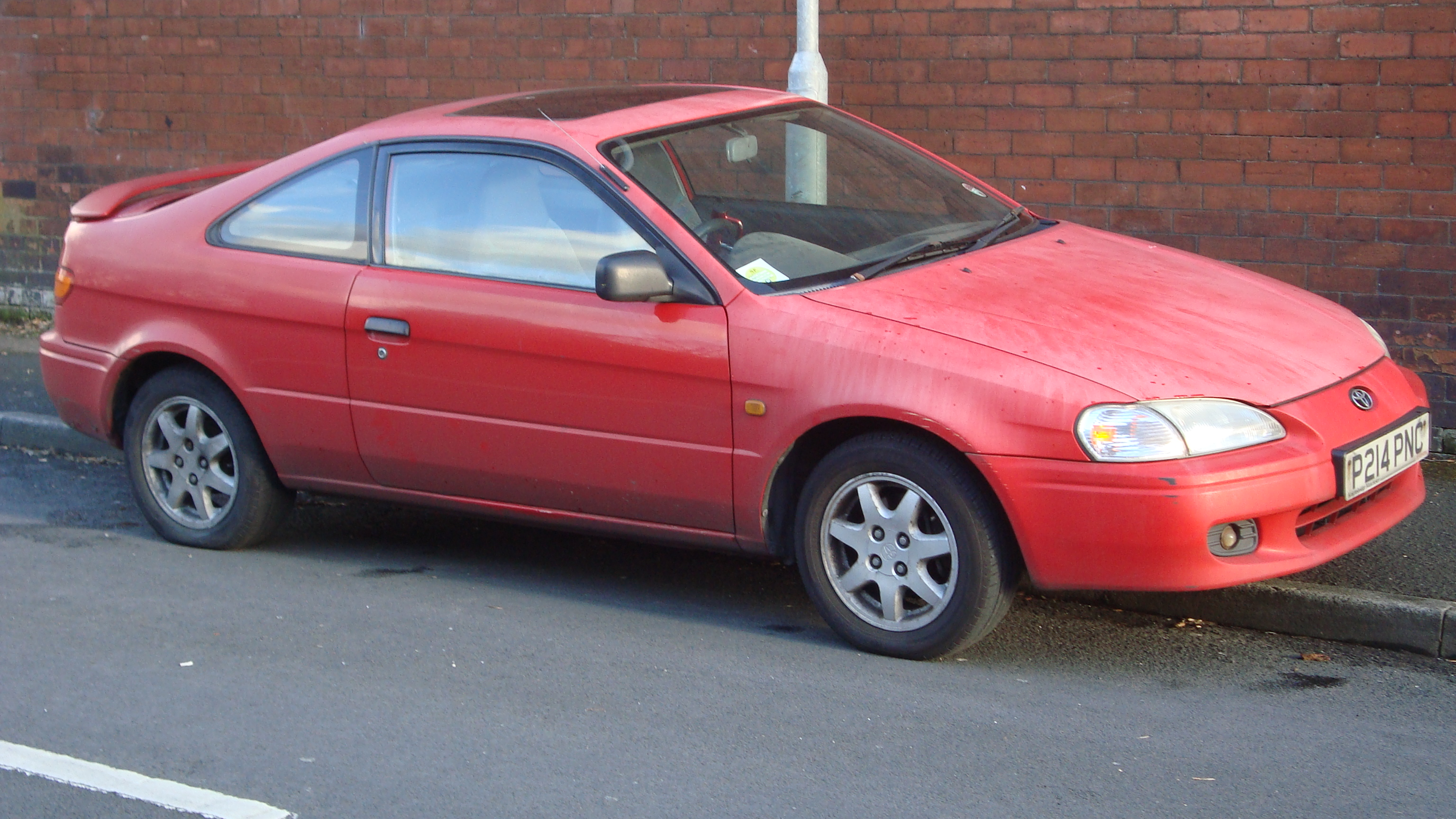 Nice looking little cars Paseos, I wouldn't mind owning one of these one day